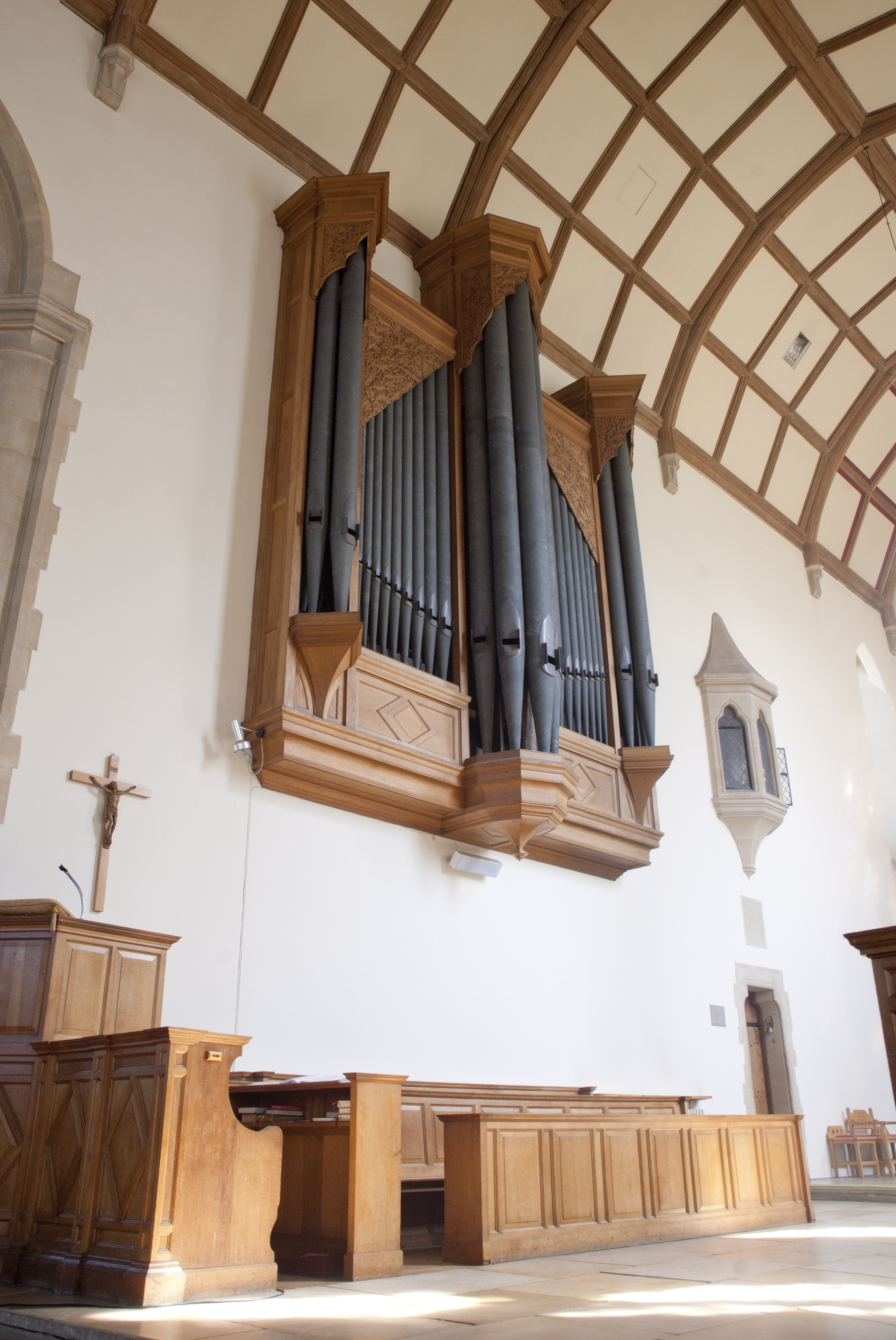 All Saints' Hockerill Church, Bishop's Stortford. Architecture by Stephen Dykes Bower. Organ case and choir stalls on the north side of the chancel.